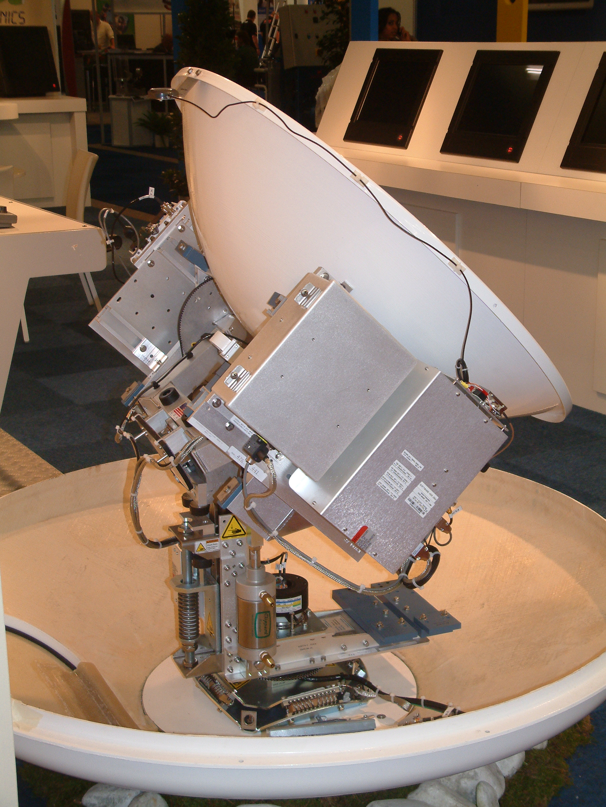 Satellite dish for ships